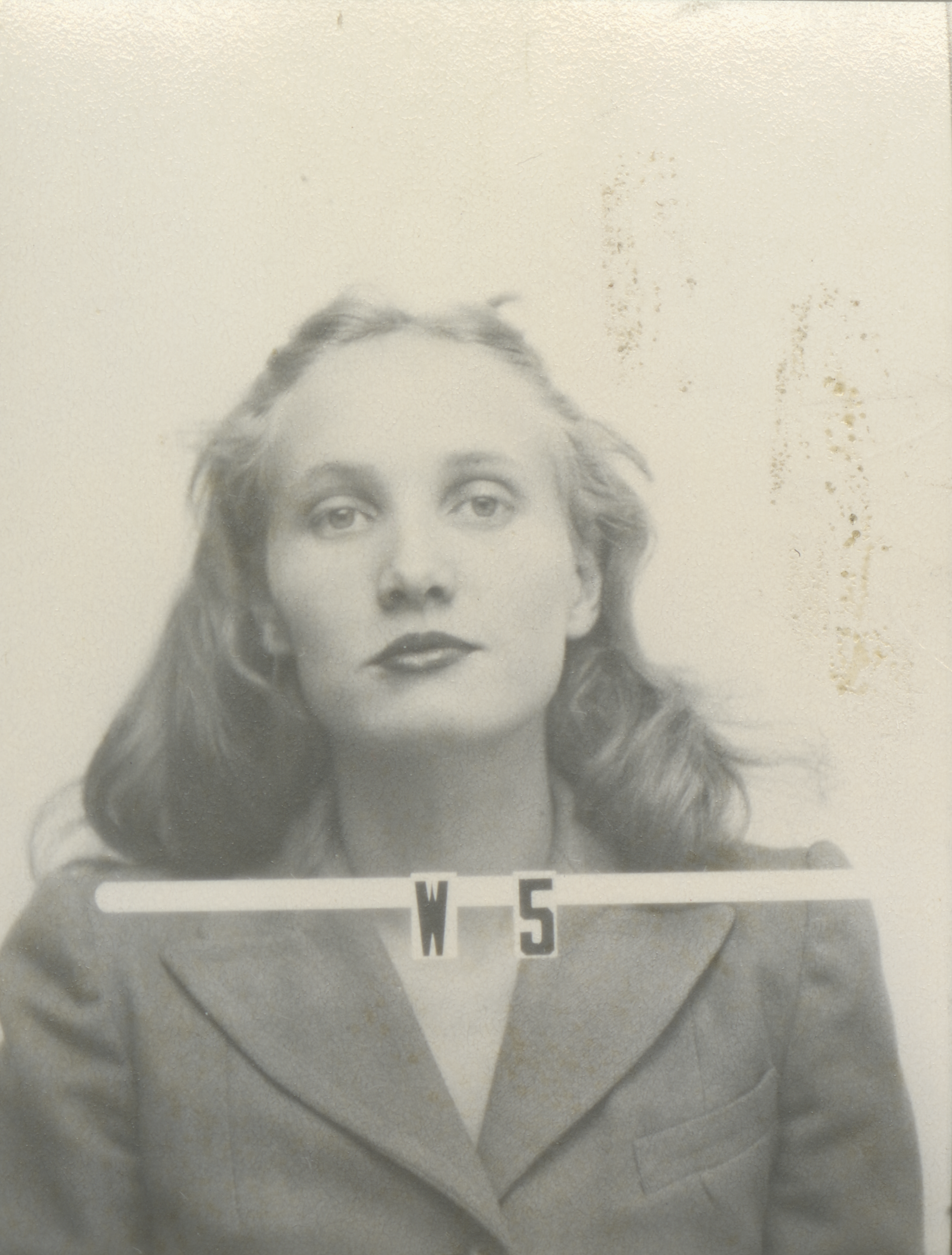 Beverly J. Agnew Los Alamos wartime security badge.